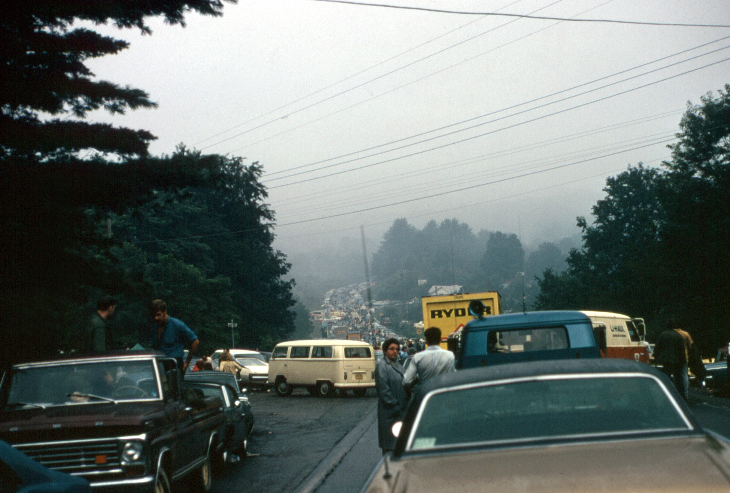 Early morning, 16 August 1969. Rt 17B heading toward the Woodstock Music and Art Fair